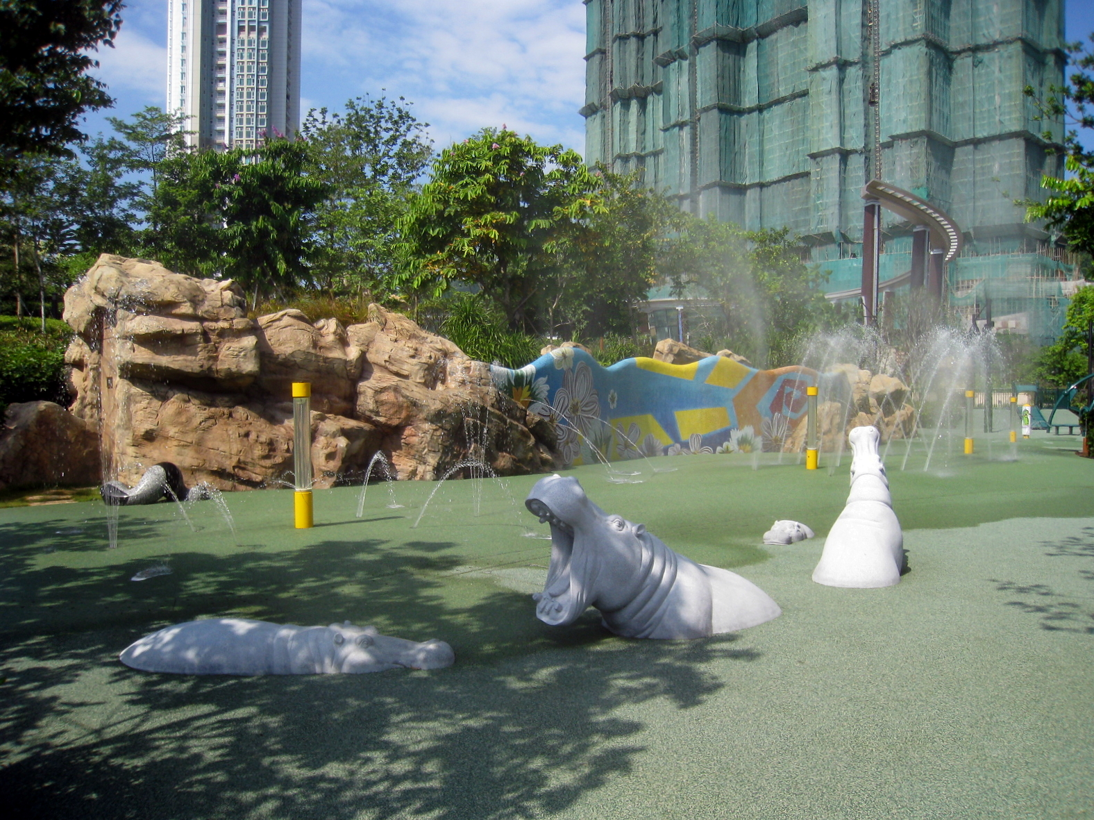 LOHAS Park The Park Playful Water Area